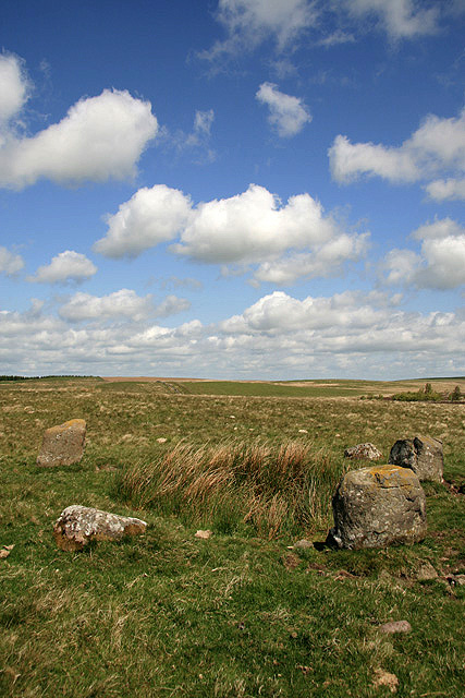 Five Stanes stone circle This stone circle on the east side of Dere Street is thought to date as far back as 2000BC to 1000BC, and could mark the burial place of chieftains from nearby settlements.